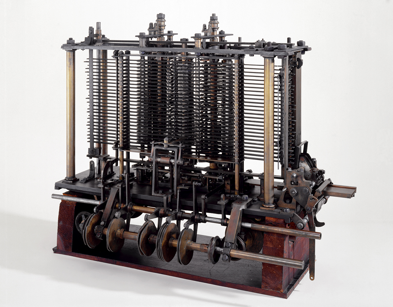 This was the first fully-automatic calculating machine. British computing pioneer Charles Babbage (1791-1871) first conceived the idea of an advanced calculating machine to calculate and print mathematical tables in 1812. This machine, conceived by Babbage in 1834, was designed to evaluate any mathematical formula and to have even higher powers of analysis than his original Difference engine of the 1820s. Only part of the machine was completed before his death in 1871. This is a portion of the mill with a printing mechanism. Babbage was also a reformer, mathematician, philosopher, inventor and political economist.